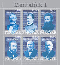 Stamp FO 632-637 of the Faroe Islands: Cultural Personalities I. Mads C. Winther (1822–1892); Súsanna Helena Patursson (1864–1916); Rasmus C. Effersøe (1857–1916); Jógvan Poulsen (1854–1941); Fríðrikur Petersen (1853–1917); Andreas Christian Evensen (1874–1917)